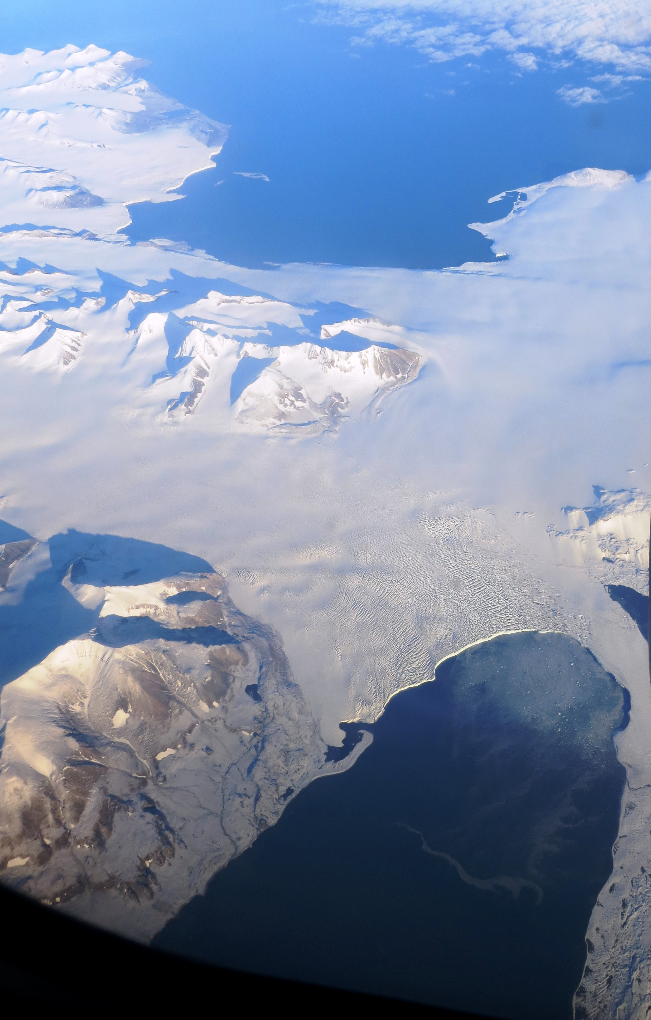 Aerial photo, from the west towards east, of the Sørkapp Land southernmost parts of Spitsbergen, Svalbard.